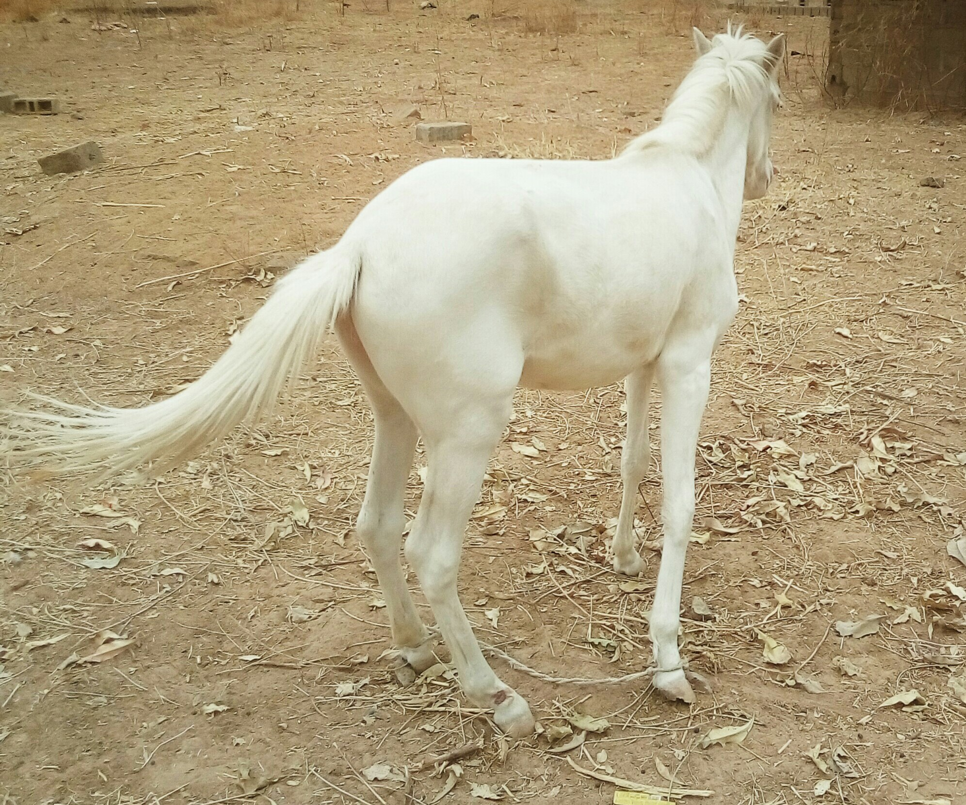 This is an image with the theme "Play" from: Mali